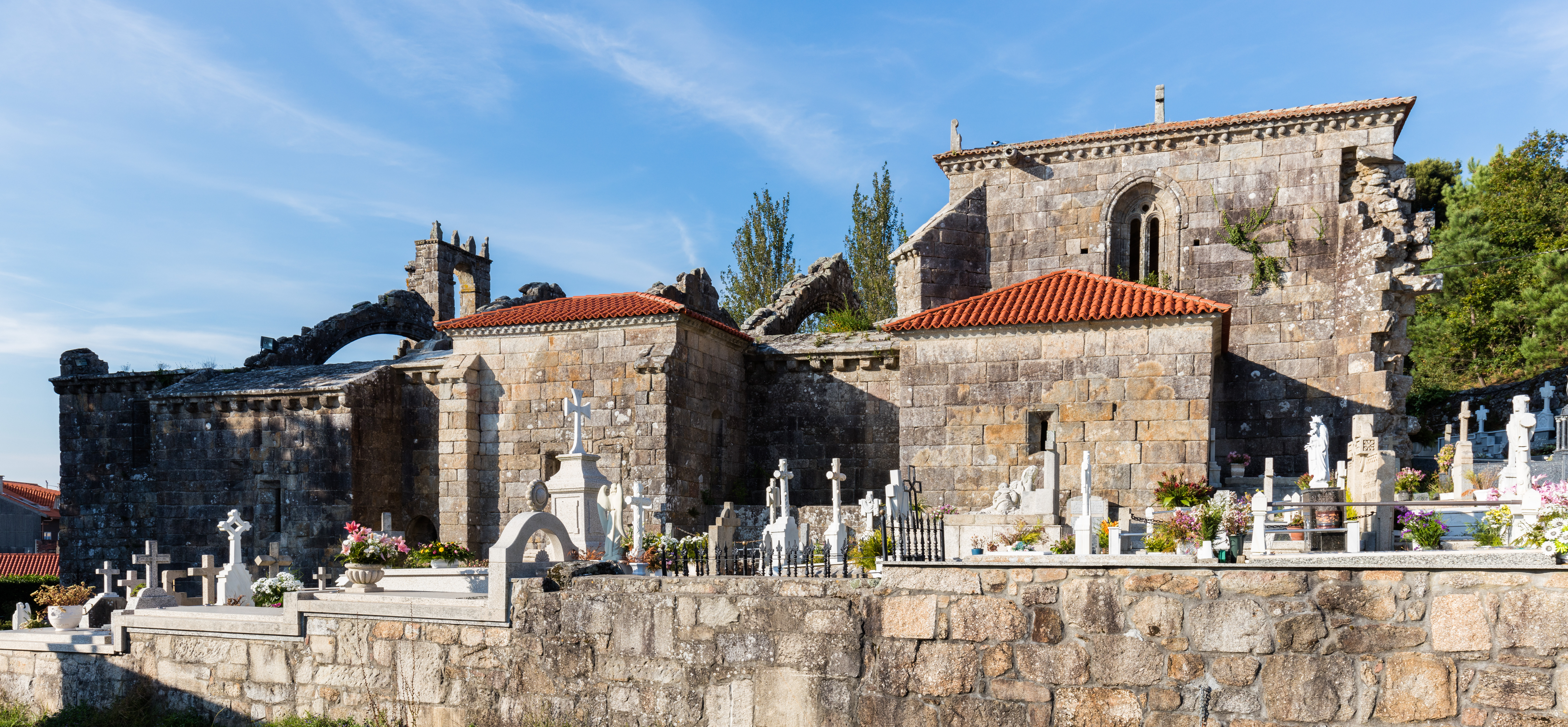 Remains of St Mariña Dozo, Cambados, Pontevedra, Spain